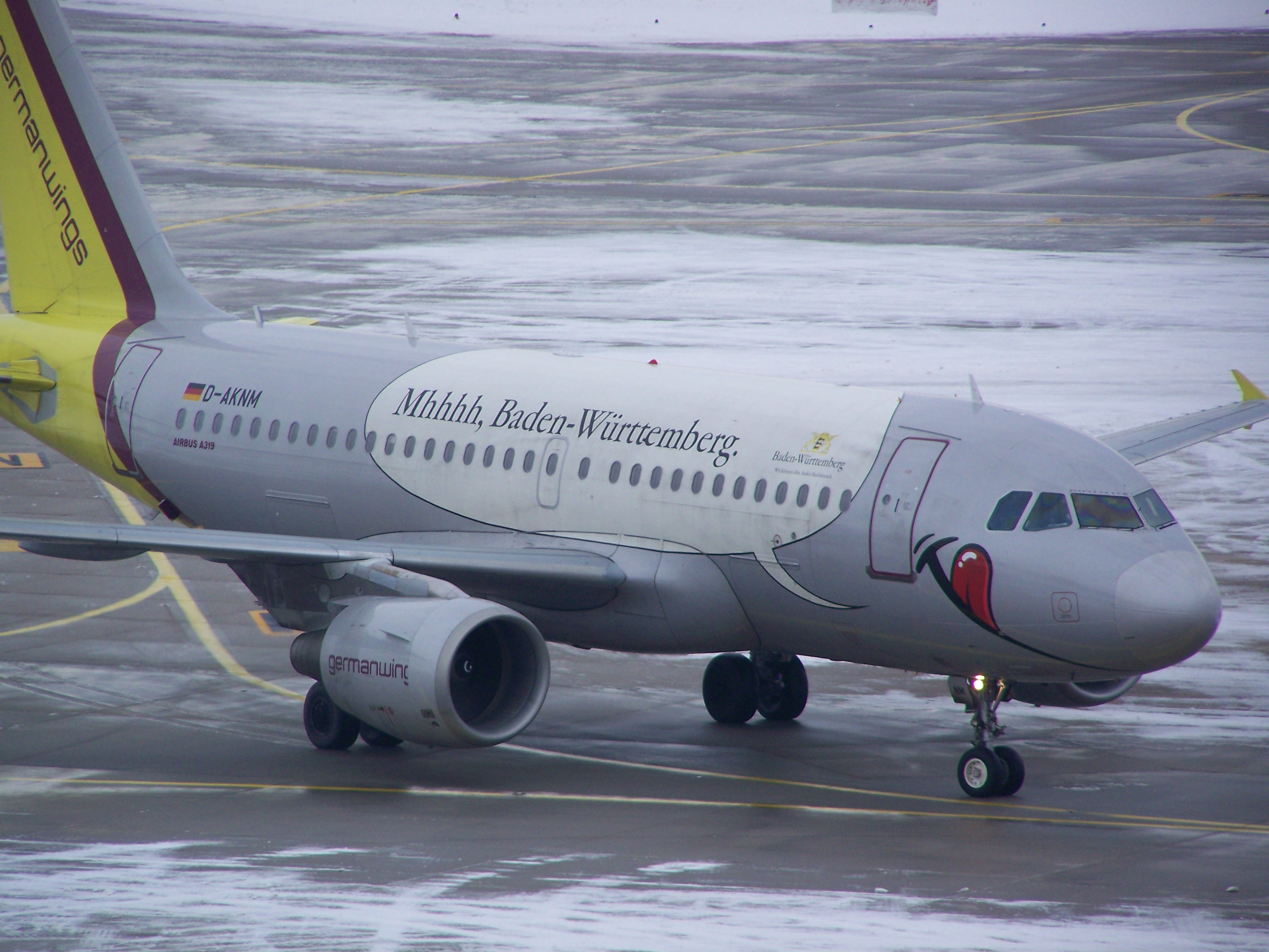 Germanwings Airbus A319 in Stuttgart (STR/EDDS)